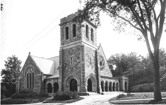 First Parish Church, Brookline, Norfolk County, Massachusetts